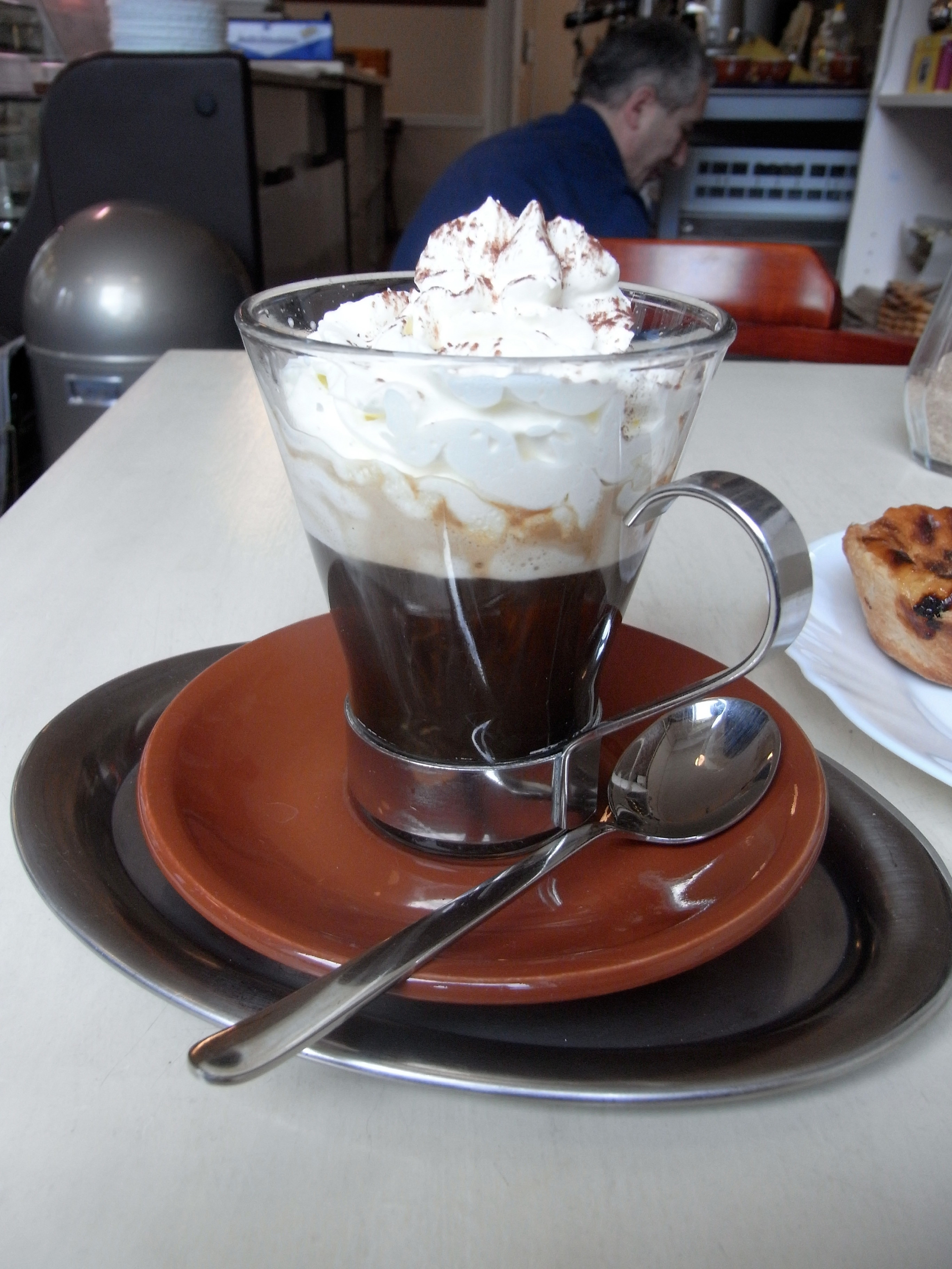 Kapuziner coffee as presented in Berlin-Moabit